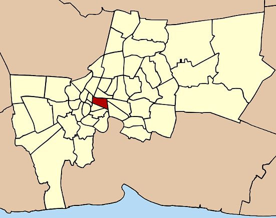 Map of Bangkok, Thailand, highlighting the Pathum Wan district.